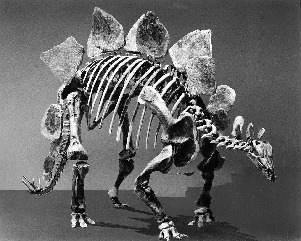 The skeleton of an armored dinosaur, the Stegosaurus, part of the Paleontology Exhibit in the National Museum of Natural History (NMNH), pre-1963 (1930s ?). In this picture the background has been taken out.